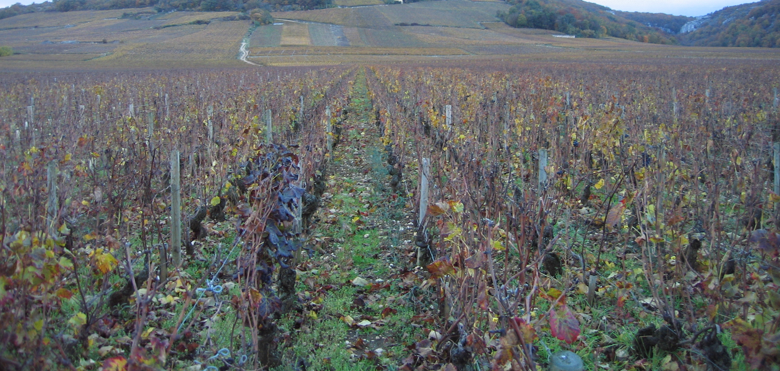 The Grand Cru vineyard Grands Écehzeaux of Flagey-Échezeaux in autumn. Picture taken in the vineyard's southeastern corner, just outside the stone wall of Clos de Vougeot.